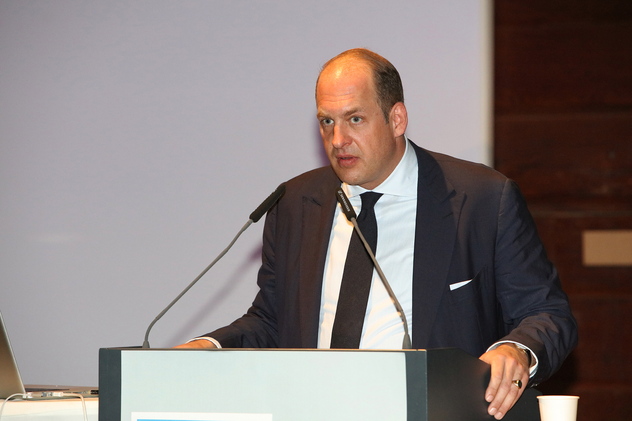 Konferenz Zugang gestalten, Börries von Notz